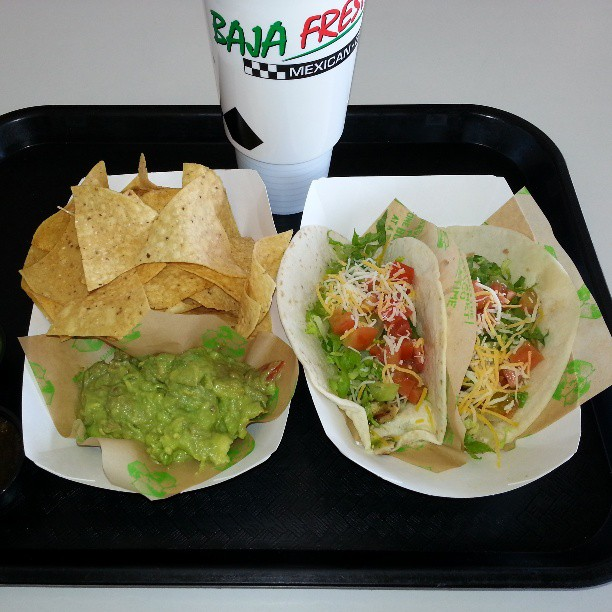 Americano Soft Tacos and Guacamole at Baja Fresh